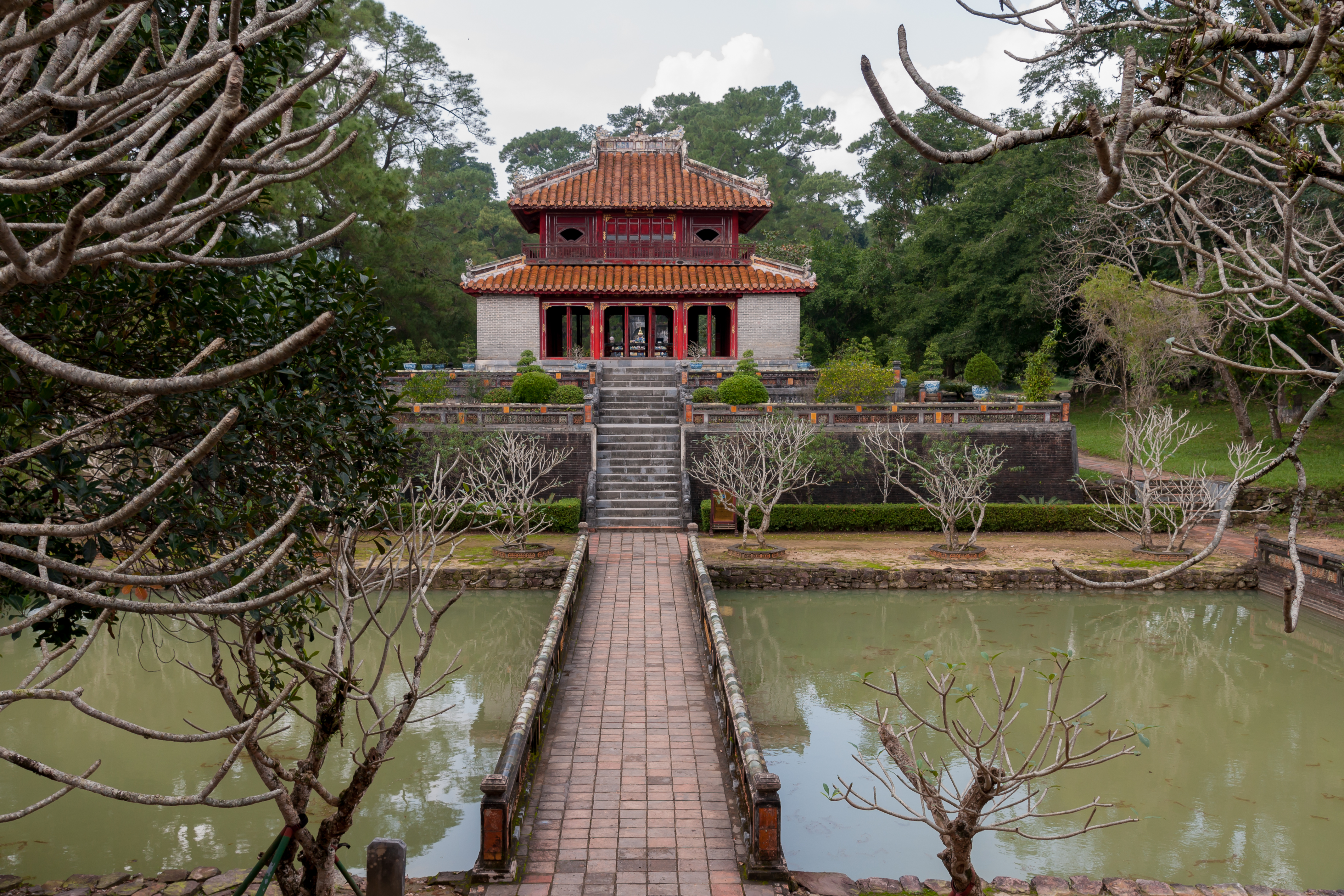 Hue, Vietnam: Lăng Minh Mạng (Tomb of the Emperor Minh Mang) in Hương Thọ, Huong Tra District, Thừa Thiên-Huế, Vietnam